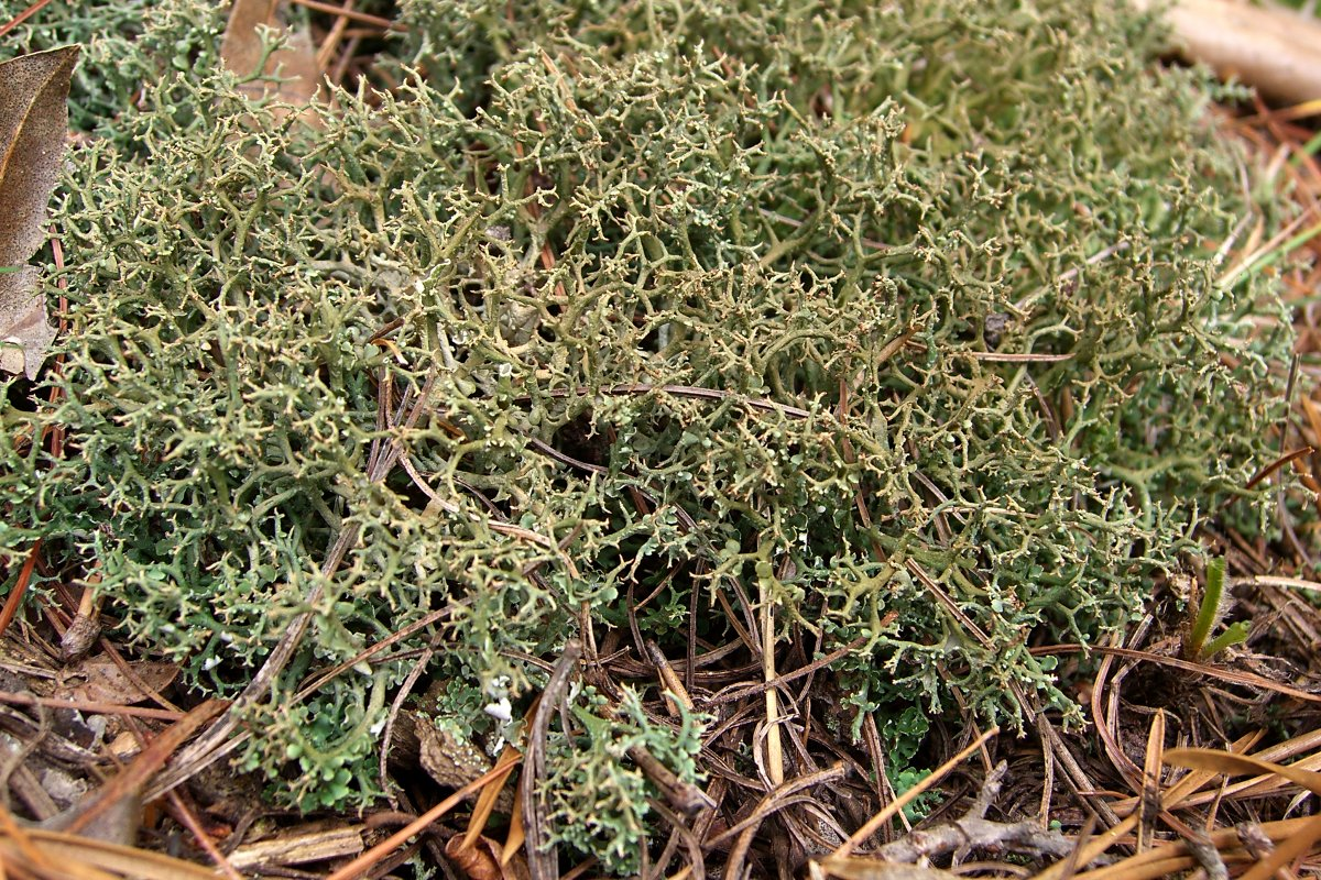 Scientific Name: Cladonia furcata (Hudson) Schrader Common Name: Many-Forked Cladonia Certainty: positive (notes) Location: Central Appalachians; George Washington NF; Shenandoah Mt Date: 20060730